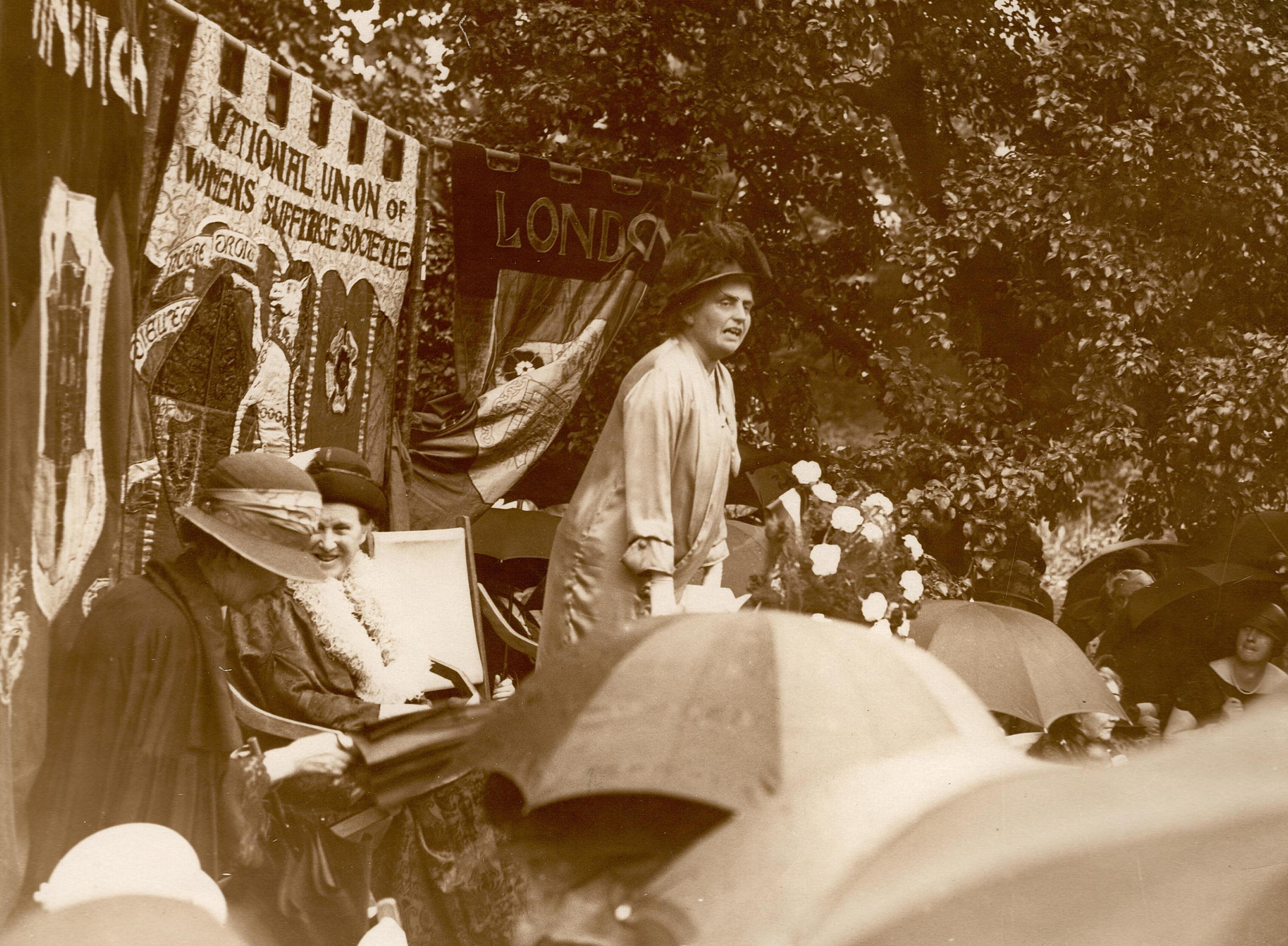 Eleanor Rathbone 1906 - 1914 so lets guess 1910 TWL 2002 47